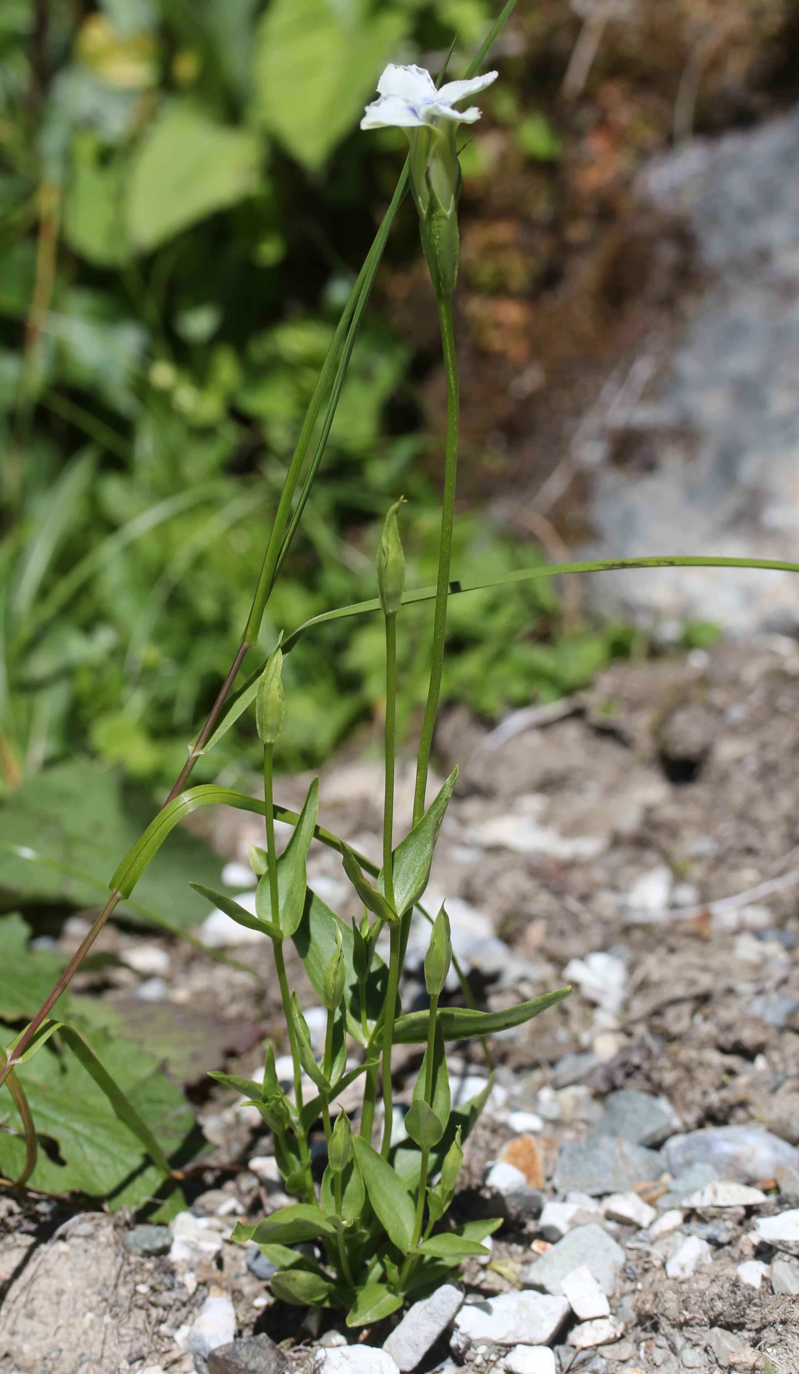 Gentianopsis yabei in Mount Shiroumayari, Hakuba, Nagano prefecture, Japan.